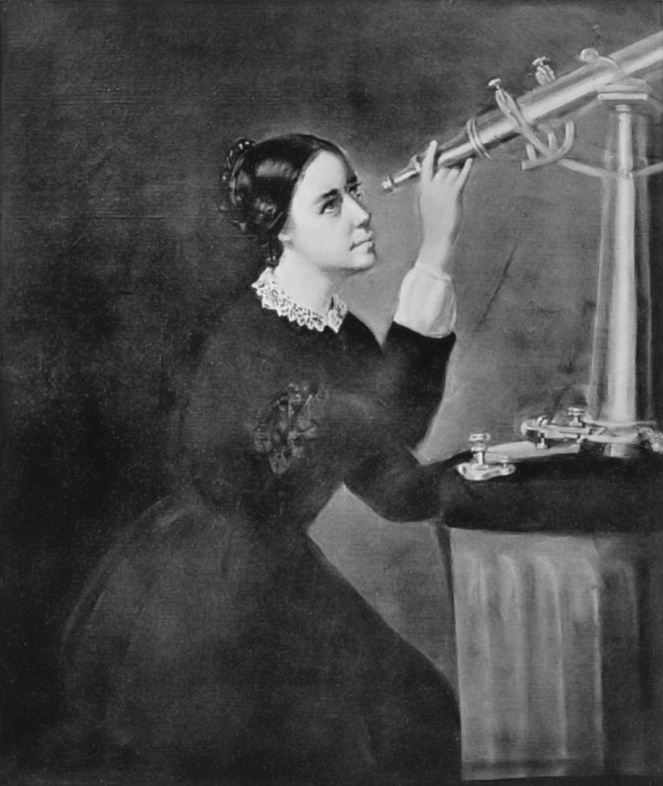 Maria Mitchell, US astronomer and pioneer of women's rights, from a portrait by H. Dassell, 1851